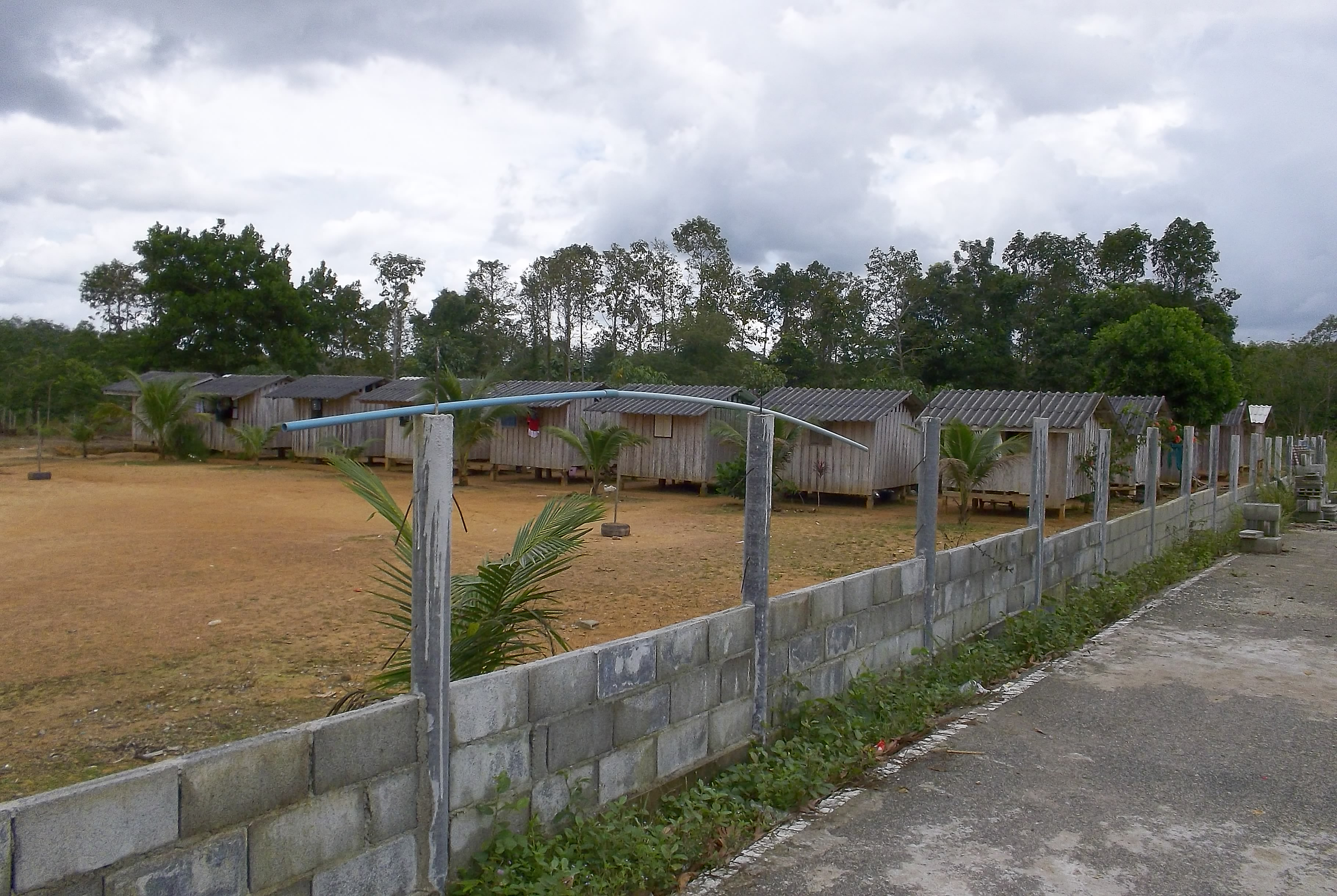 Pondok School in Ra-ngae District, Narathiwat Province in January 16, 2011